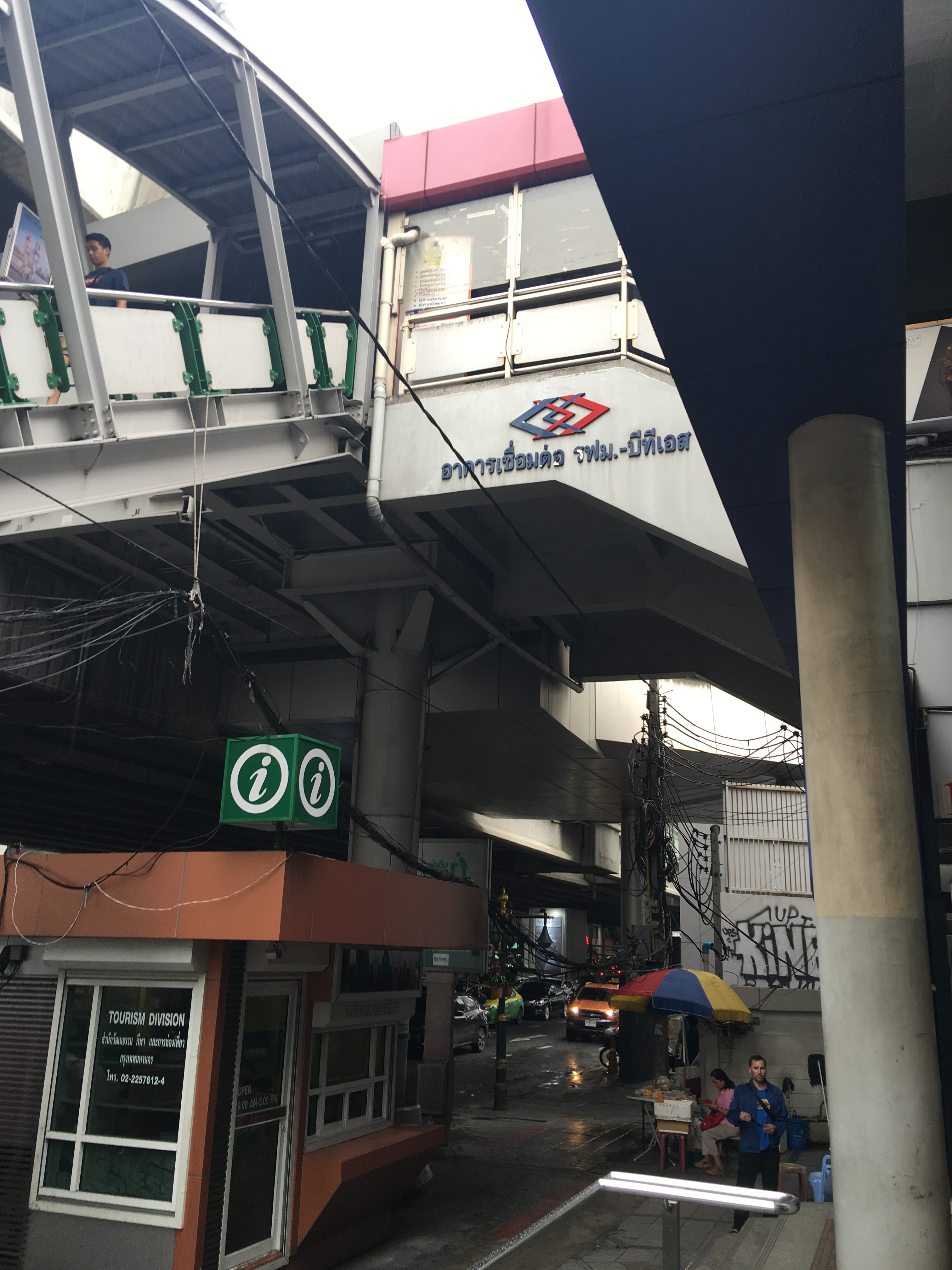 The building connecting Sukhumvit MRT Station - Asok BTS Station